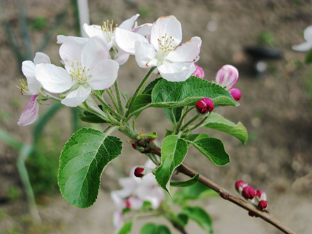 Pinova in blossom